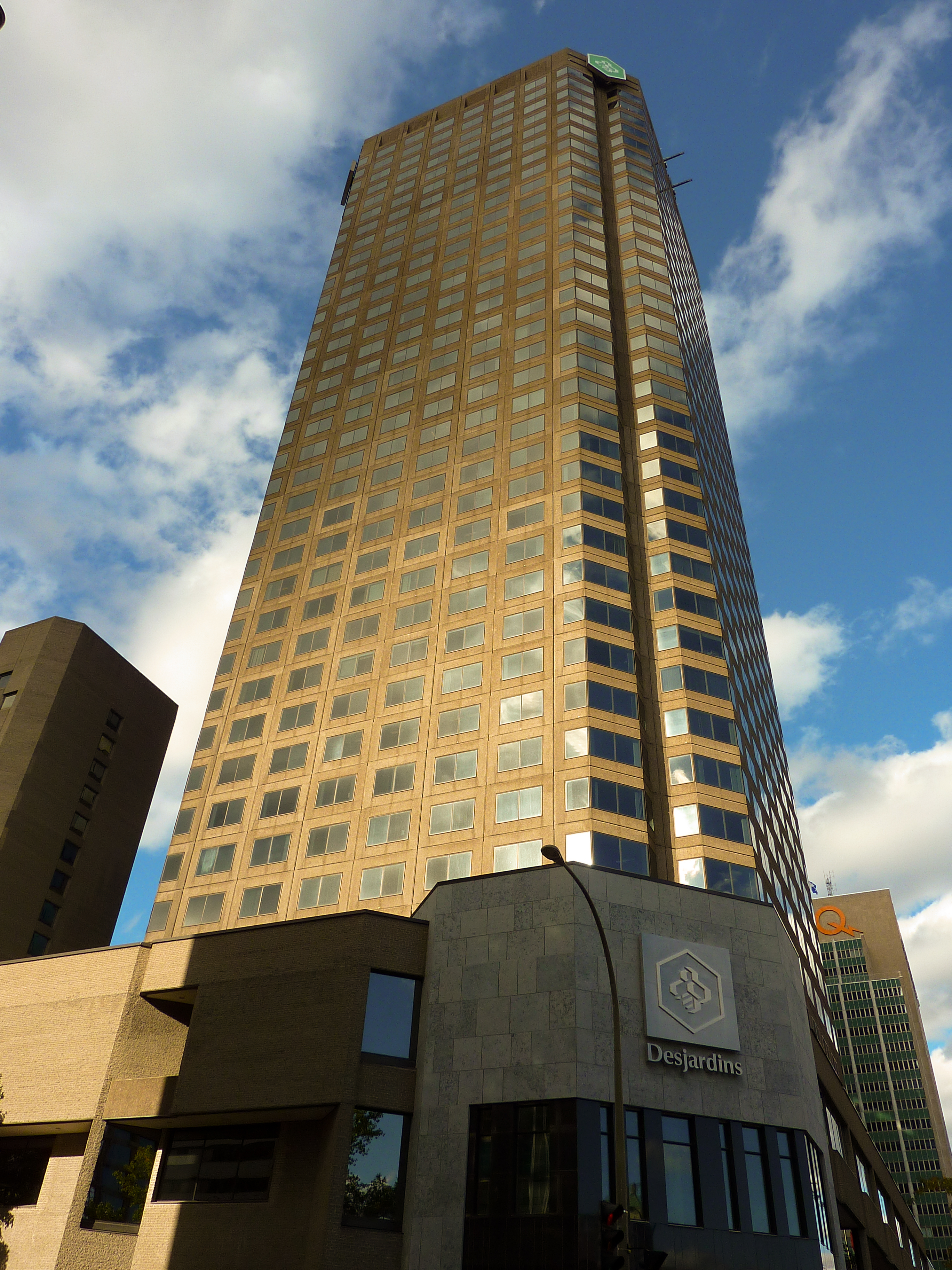 The South Tower at Complexe Desjardins.